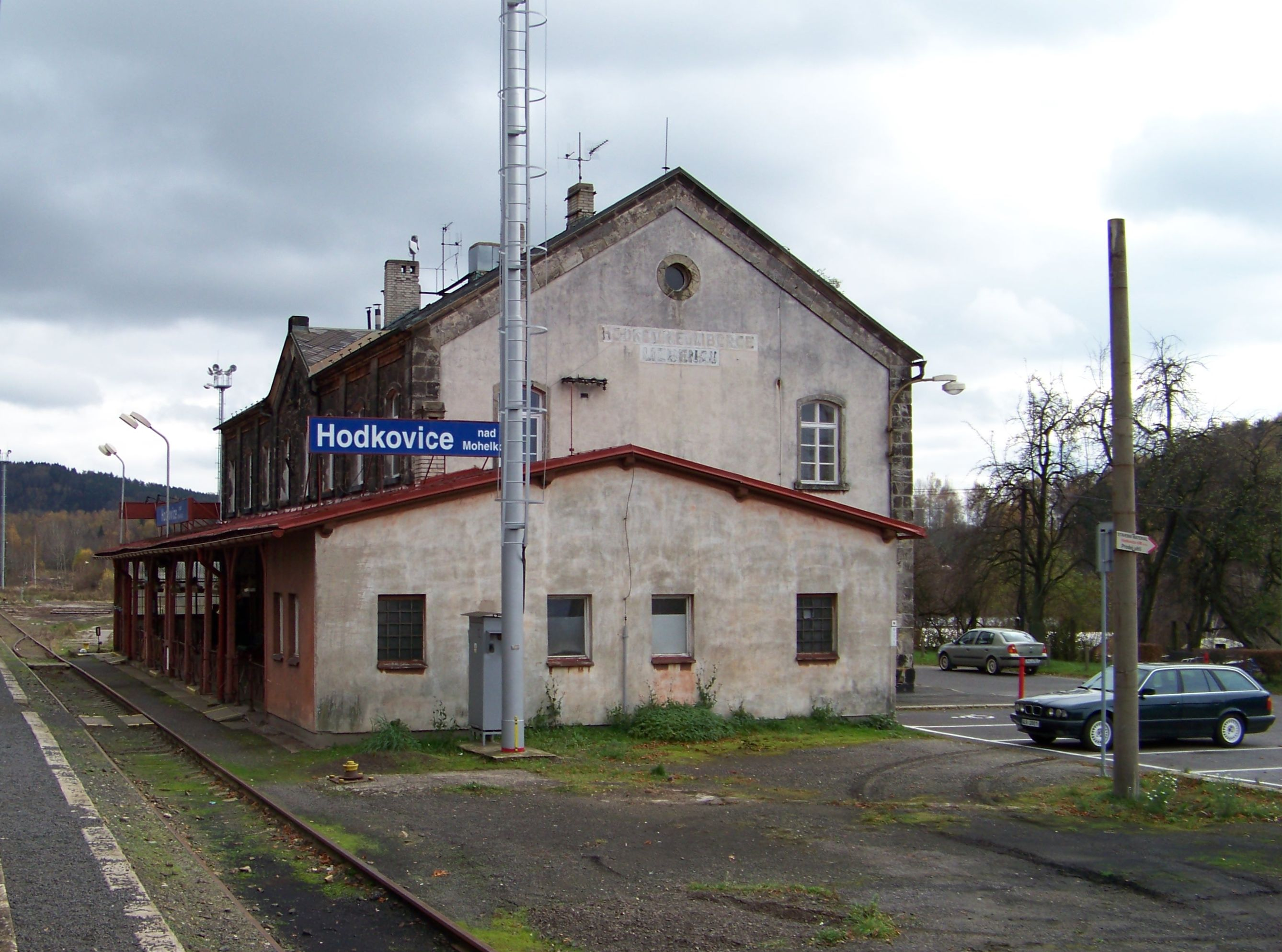 Hodkovice nad Mohelkou, Liberec District, Liberec Region, Czech Republic. Train station Hodkovice nad Mohelkou. - Google Maps - Google Earth